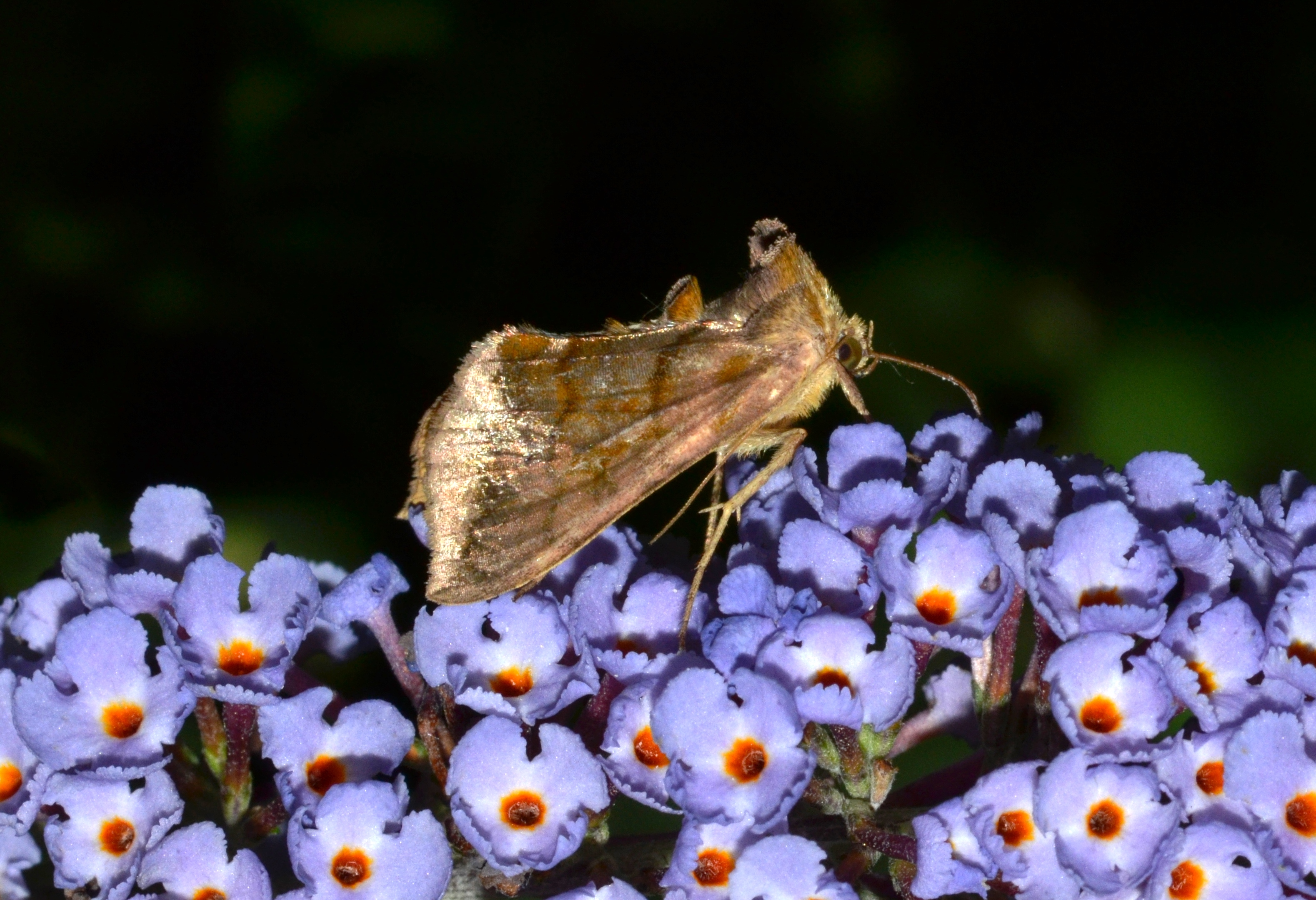 Mothing 7/14/14 (On Andy's butterfly bush right behind the sheet)